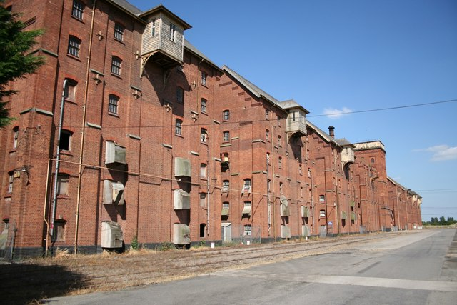 Bass Maltings. The vast semi-derelict Grade II* listed maltings dominate the skyline approaching Sleaford from the south 254319, opened in 1905 they are an impressive feat of engineering by any standard. A massive four-storey central tower is flanked by eight detached pavilions giving a frontage of nearly 1,000 feet. In 2005 a £55 million restoration project was launched by Prince Charles and the Phoenix Trust .... one hundred years after they opened.